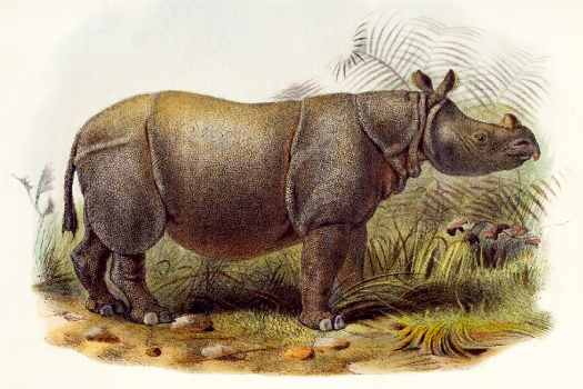 Female Indian Javan rhino imported by the animal dealer Jamarch from the Sunderbunds (or Sundarbans) in India. It was in London in 1877 where it lived less than 6 months. From Sclater 1877.